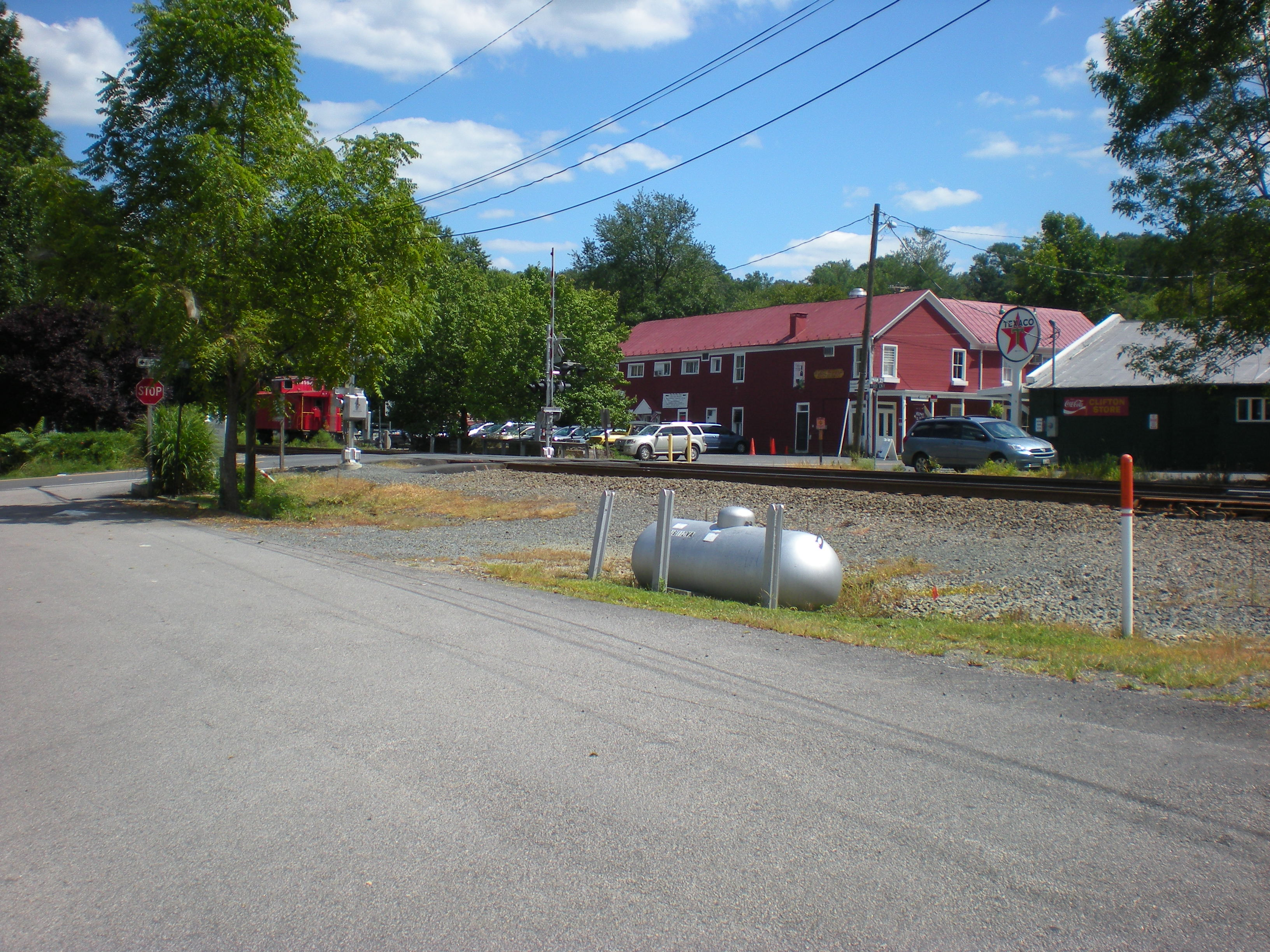 Heart in Hand restaurant in Clifton, VA.